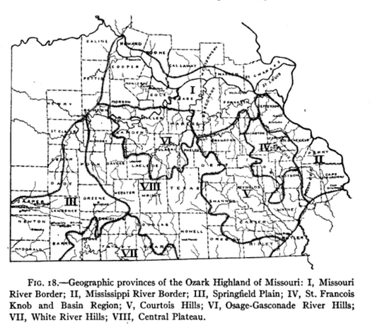 Missouri Ozarks map showing sub-regions of Ozark Higlands in Missouri